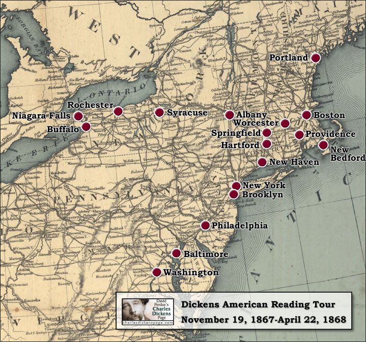 Map of Charles Dickens's American reading tour in 1867-68